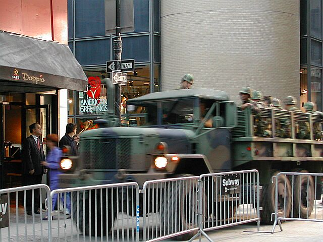 Aside from repair trucks and some bus routes, military vehicles are the only vehicles allowed anywhere downtown. New York City, September 18. 2001. Here is shown M35A3 2.5 ton truck. Looking east across Maiden Lane and Nassau Street.28-guardtransport